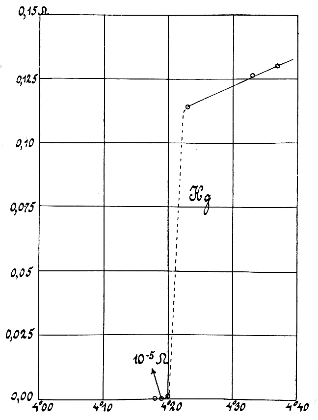 The first measurements on superconductivity: the resistivity of a capillary of mercury as a function of temperature.